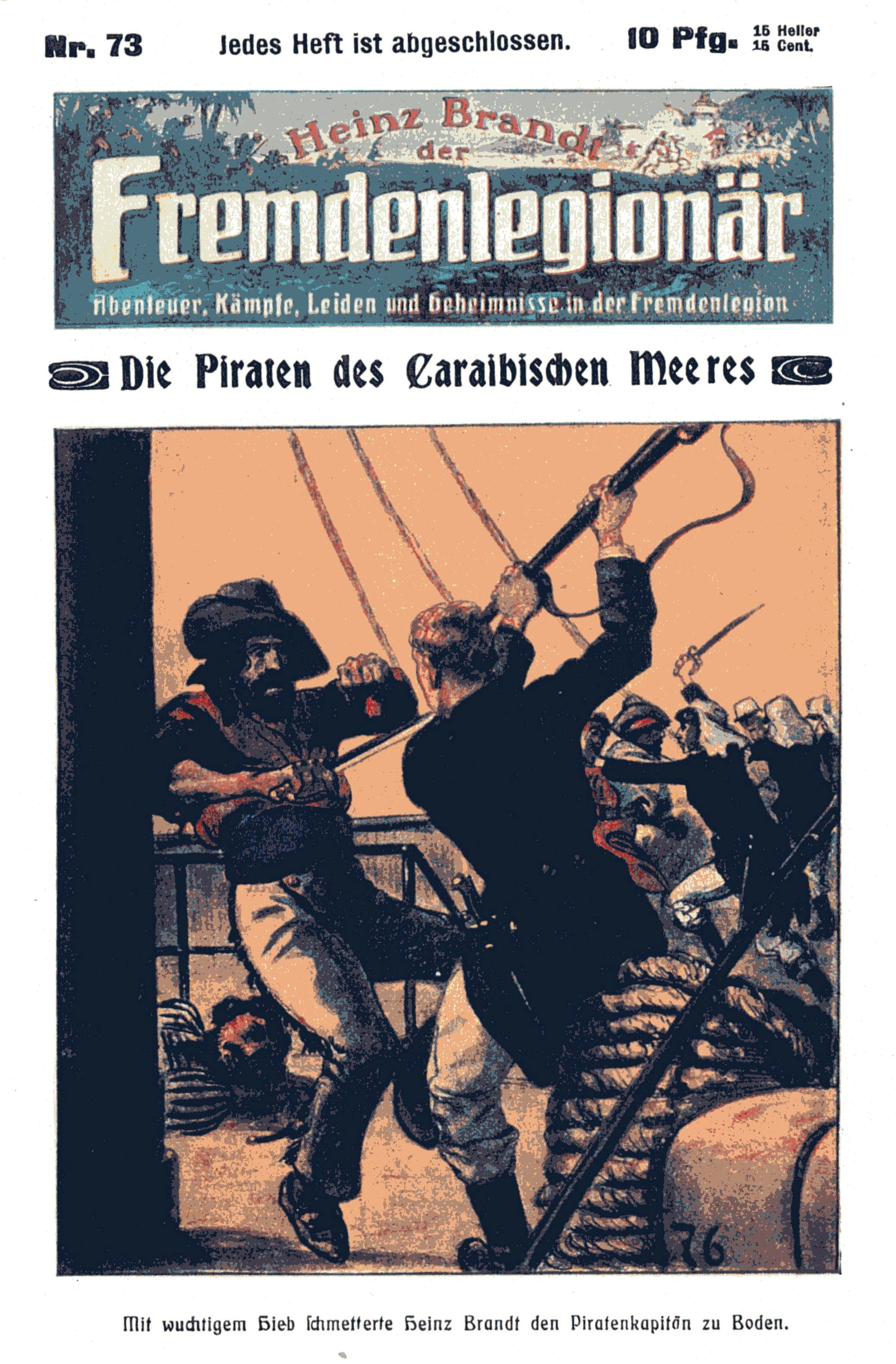 Cover of the German dime novel serial "Heinz Brandt der Fremdenlegionär", Volume 73, published in 1914. It shows how Heinz Brandt struck down a Spanish pirate captain on board the French steamer "Gloire" on the the passage from Cayenne to Martinique